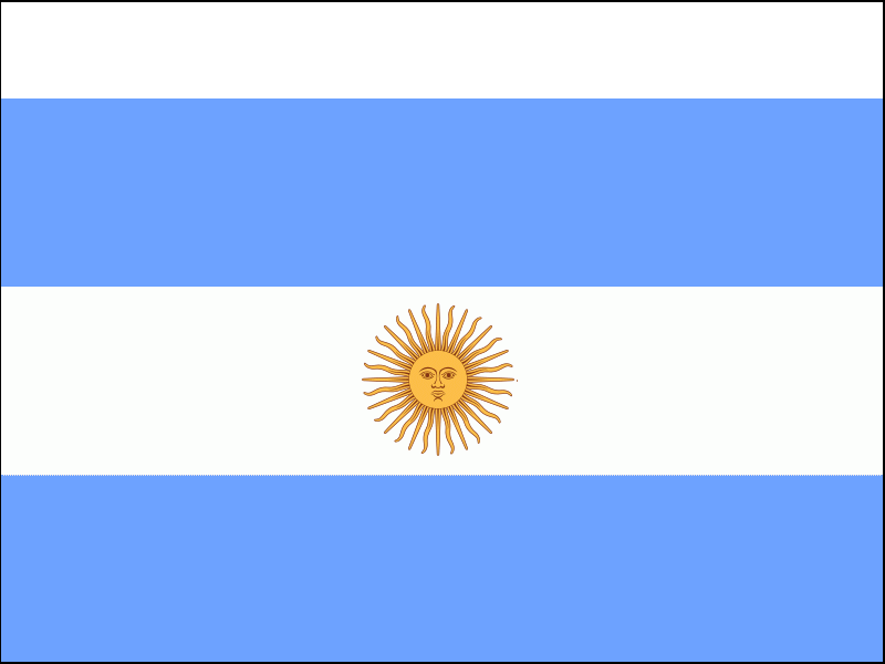 Flag of Argentine adopted by the Unitarians exiled at Montevideo. This war used as the naval jack until 1852.